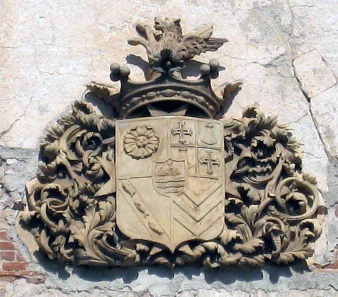 Coat of arms of the Desvalls family at palace in the Parc del Laberint d’Horta in Barcelona, Catalonia (Spain).